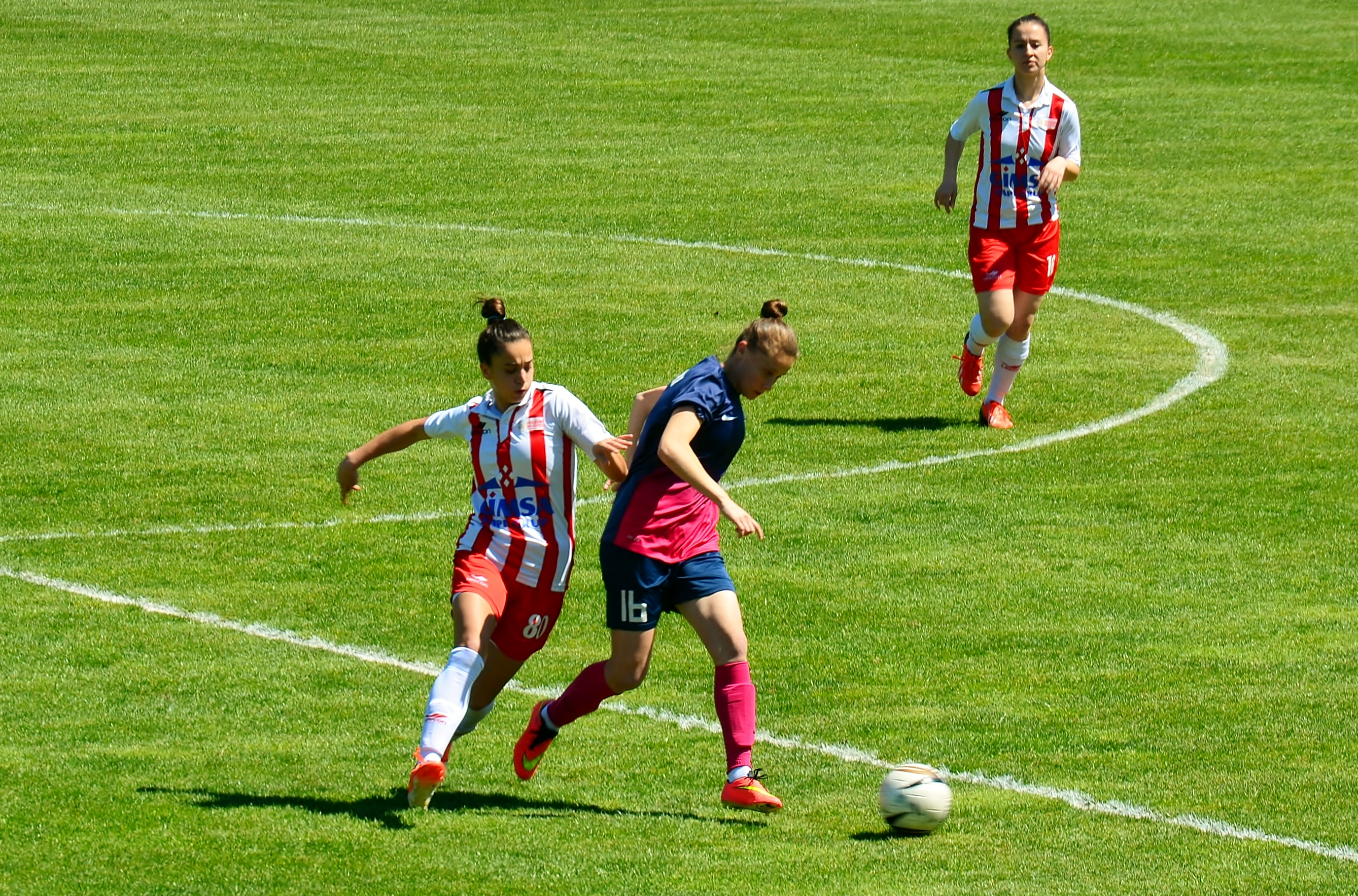 Ebru Topçu (navy-rose) playing for Konak Belediyespor in the 2014-15 season